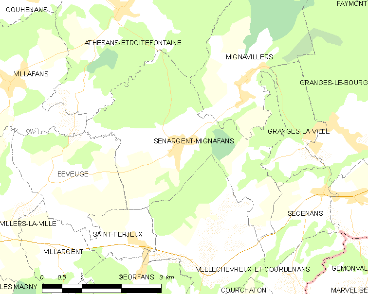 Map of French municipality